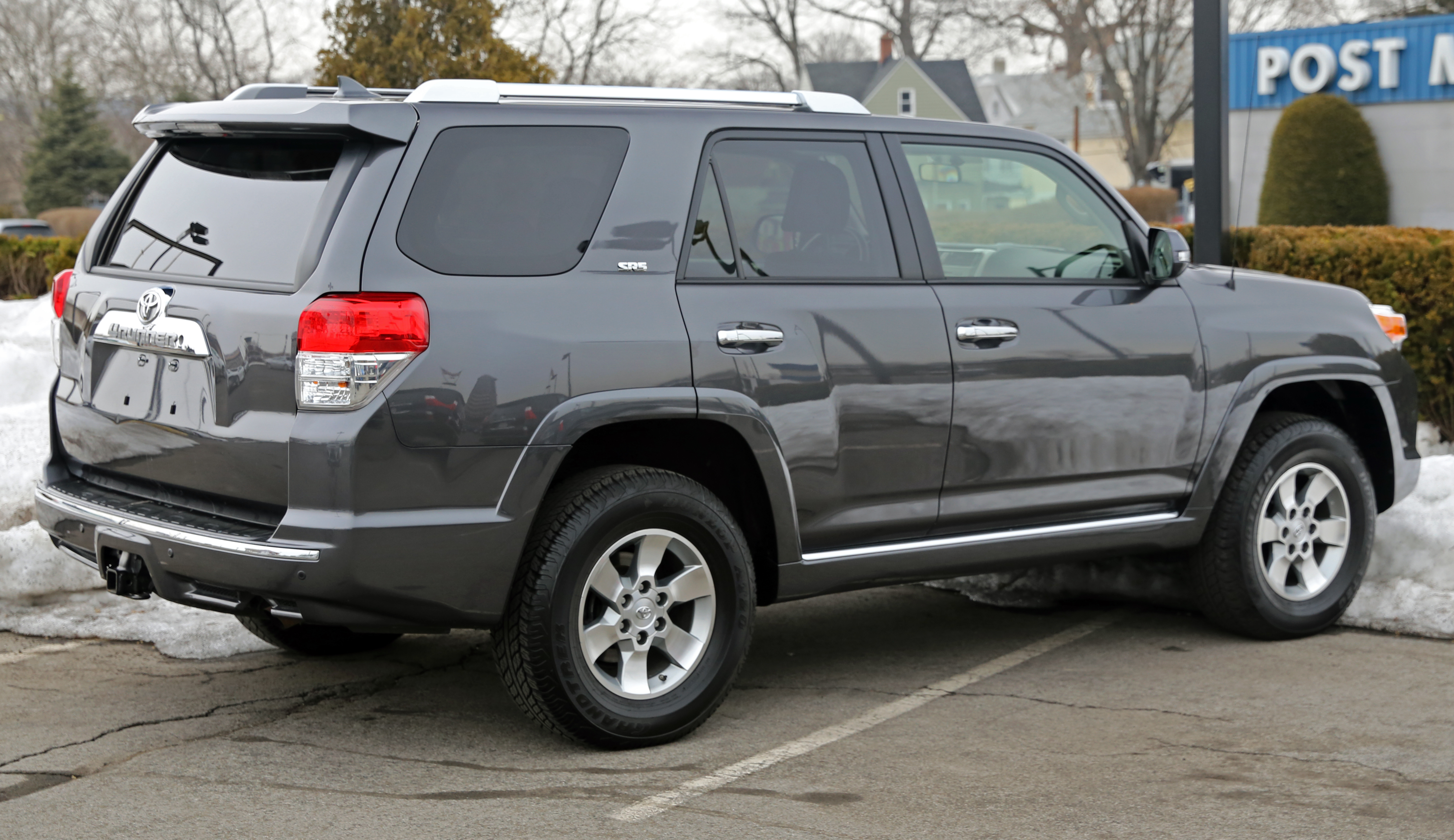 A 2010-2012 Toyota 4Runner SR5, rear view.